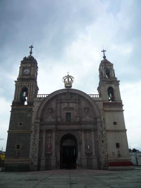 churches in mexico